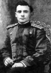 Harry Kandel (1885-1943)